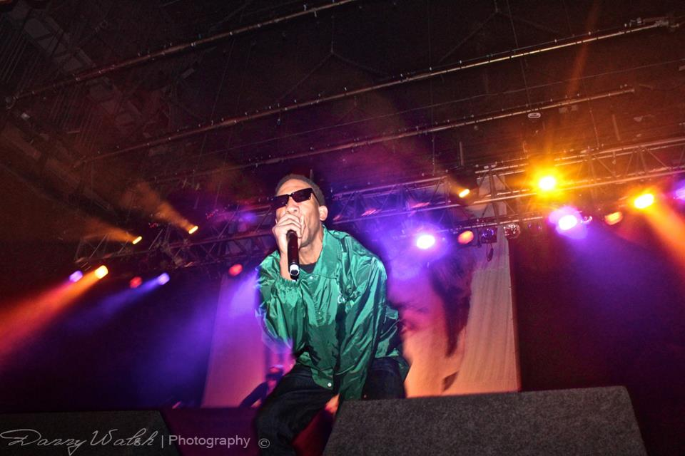 Left Brain performing live in Dublin, Ireland